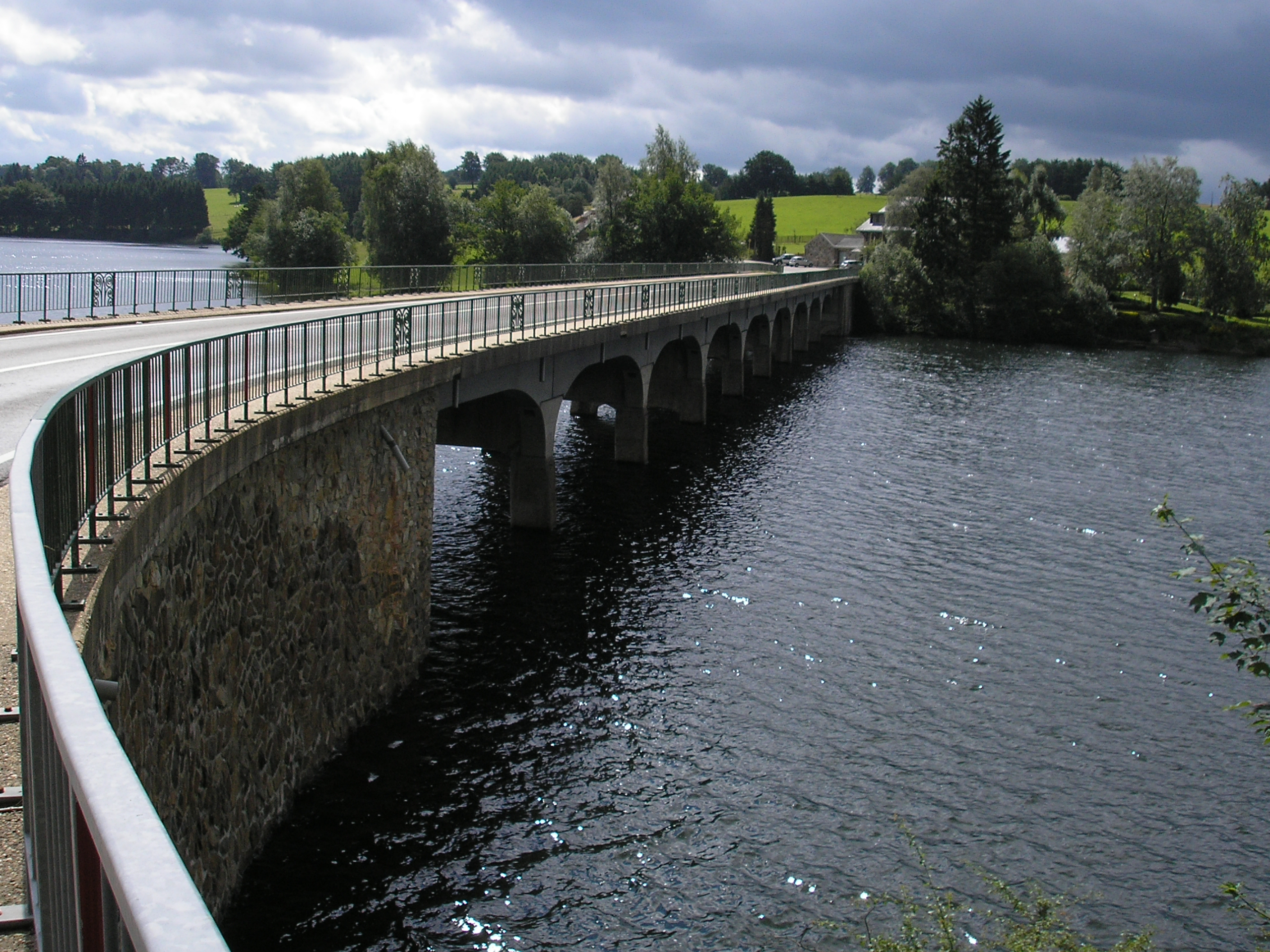 Lake Robertville, Haelen-Bridge, East Belgium